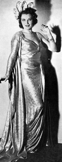 Margit Rosengren in the operetta Mariza by Emmerich Kálman